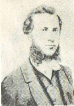 Guillermo_Lorda_Ortegosa